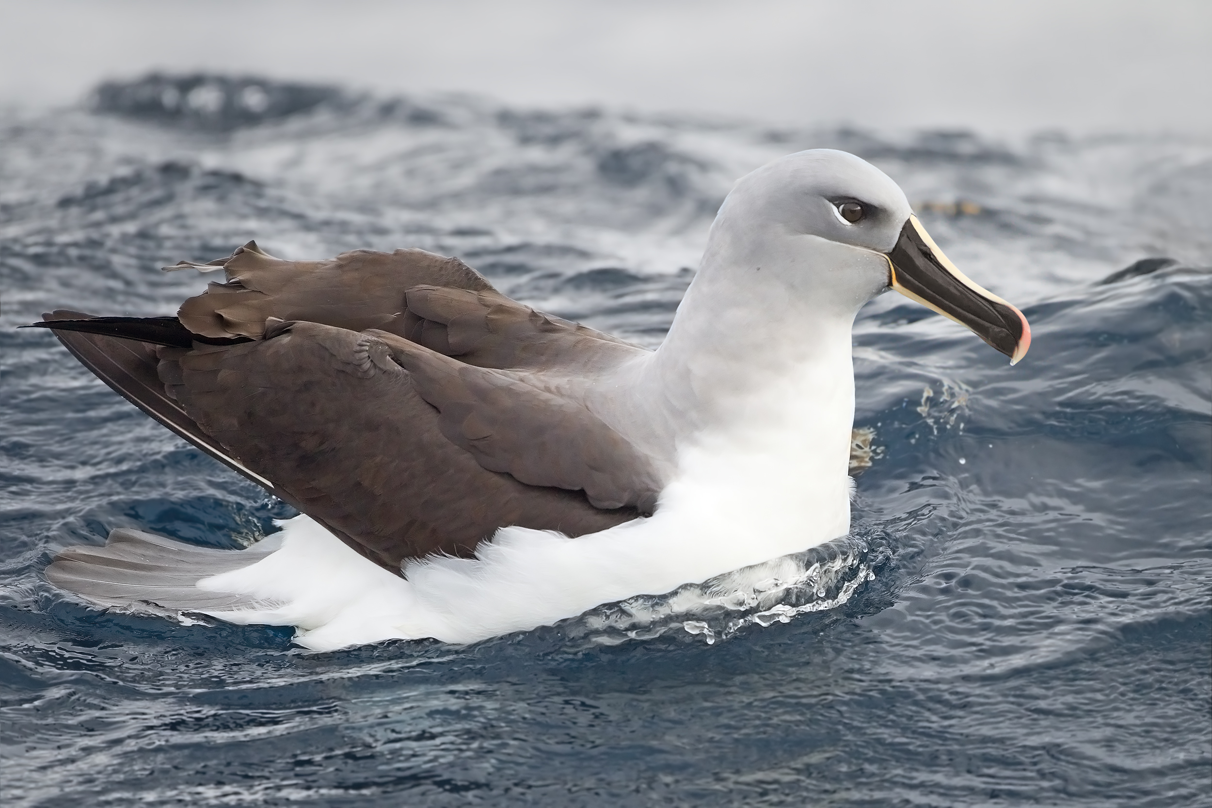 Grey-headed Albatross (Thalassarche chrysostoma), East of the Tasman Peninsula, Tasmania, Australia